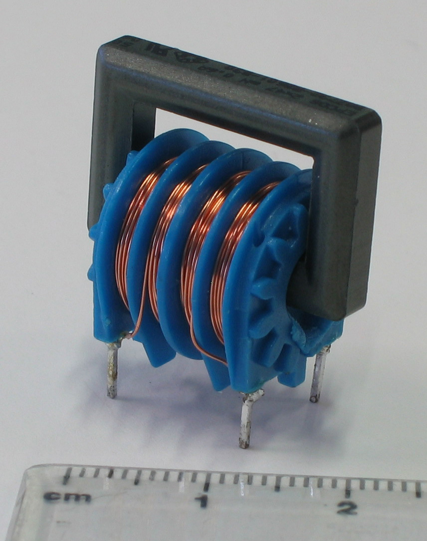 This is a choke with two 47 mH windings. It can take up to 0.6 A at 230 V. You might find it in a power supply, blocking high-frequency interference. Potographed with ruler for scale.